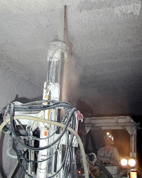 Installation of Roof Bolts in Panel 3 at the Waste Isolation Pilot Plant.